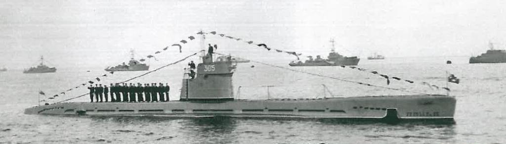 Polish M-class submarine, Series XV ORP Kujawiak: Days of Sea celebration